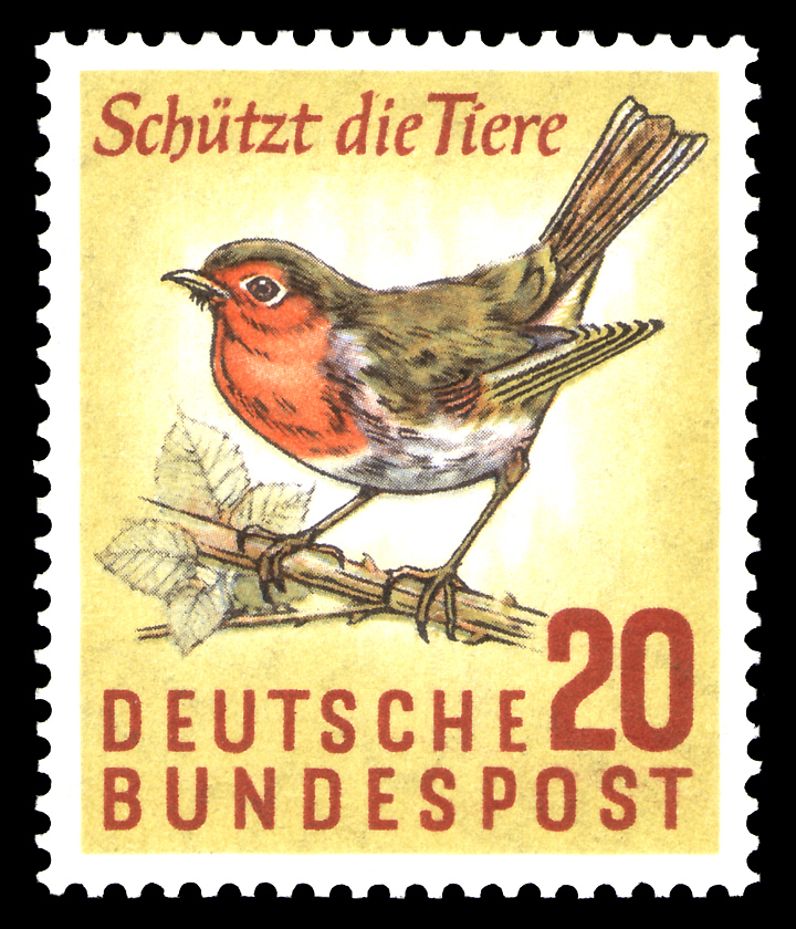 Stamps series "environmentalism", save the animals